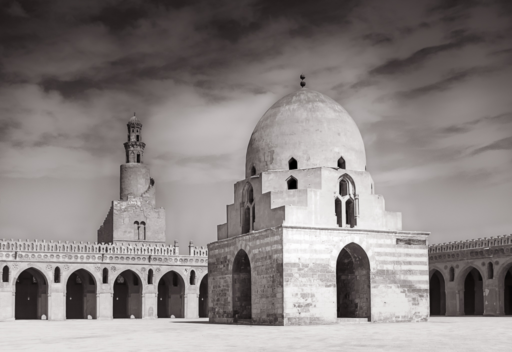 Fountain and Minret of Mosque of Ibn Tulun, Cairo, Egypt